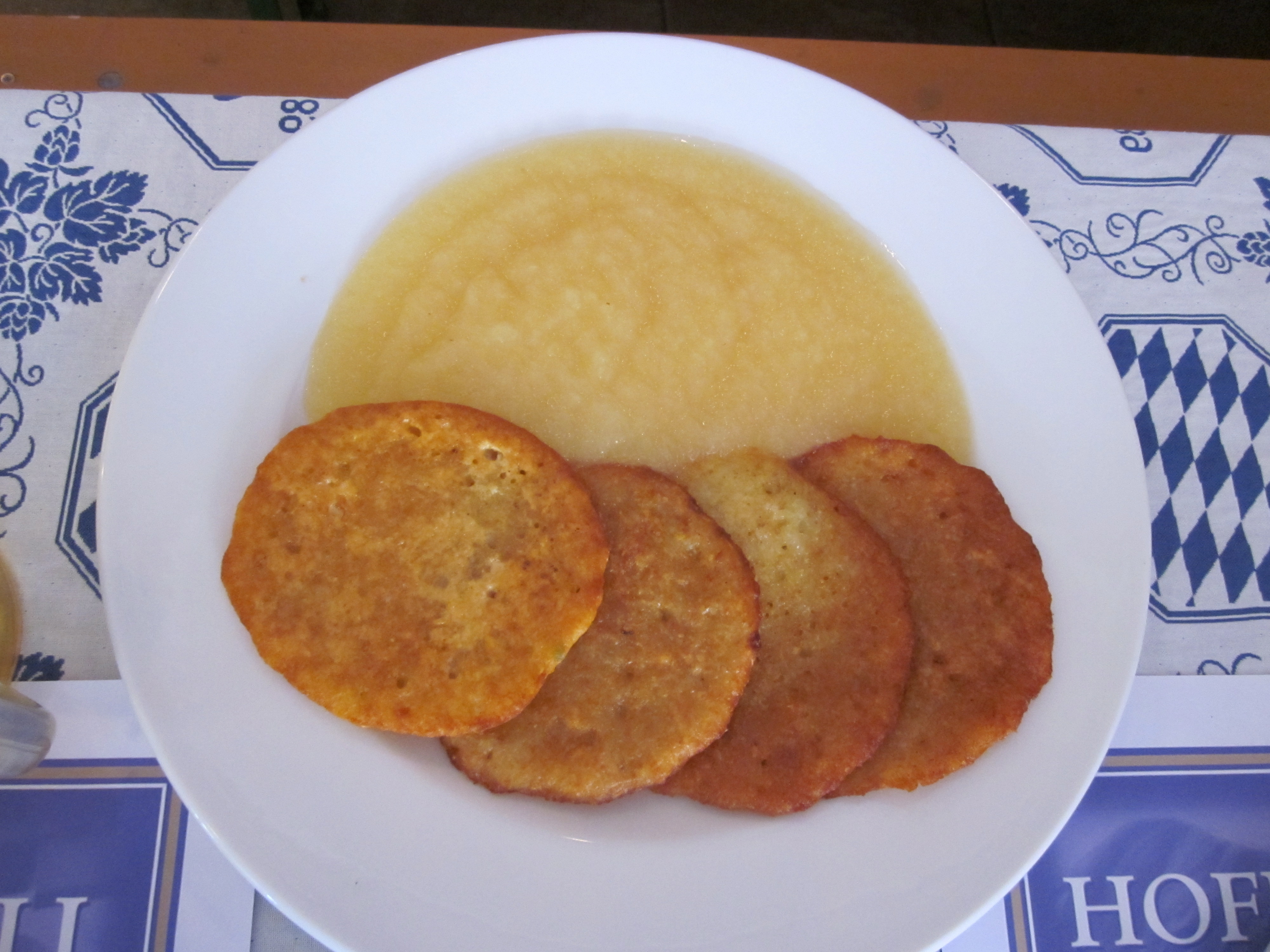 Miami Beach, Florida Potato pancakes and apple sauce at Hofbrau Haus in Lincoln Mall.